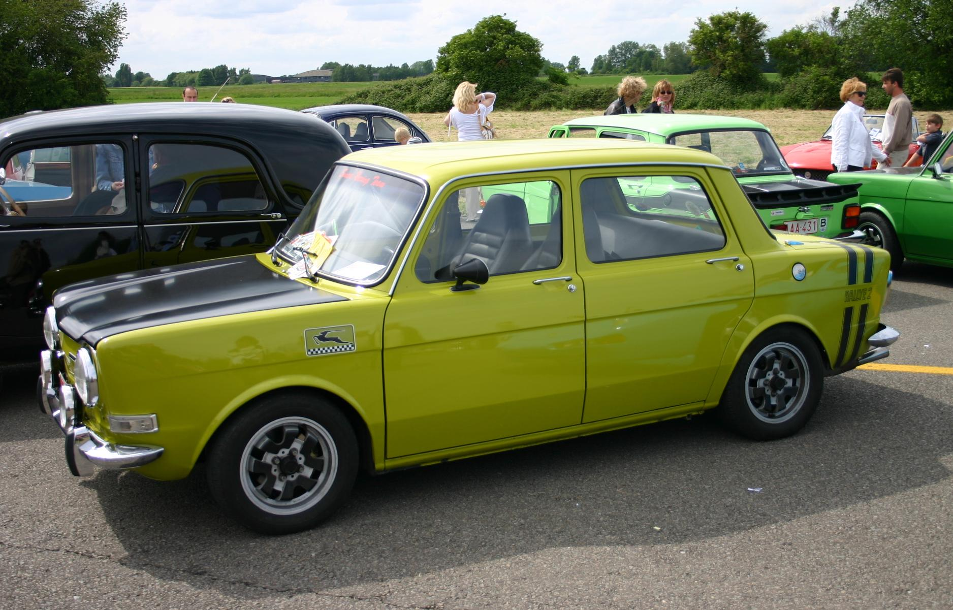 Simca Rally 2 taken at classic car show in Belgium 2005